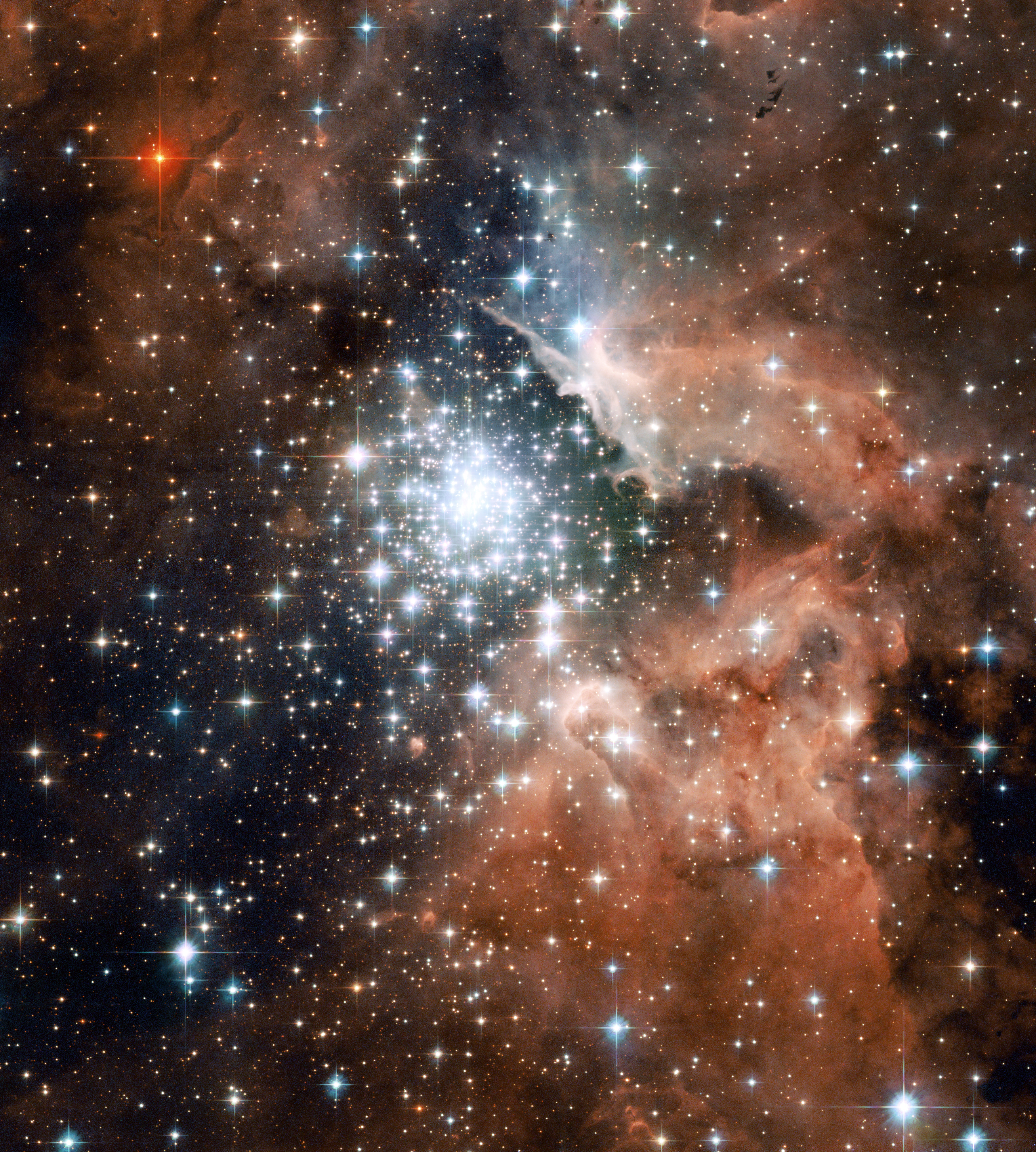 Open star cluster and nebula NGC 3603 by Hubble Space Telescope (ACS)